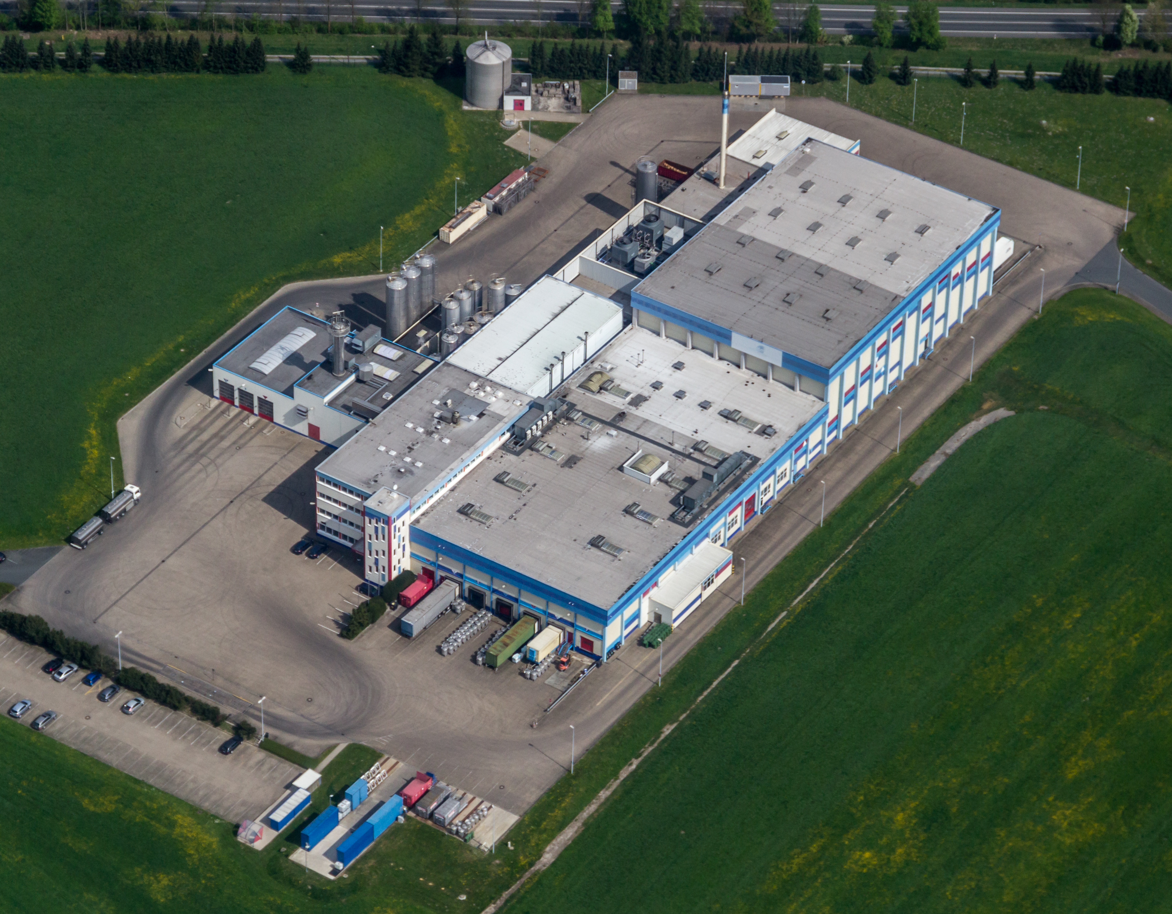 Coesfeld, North Rhine-Westphalia, Germany